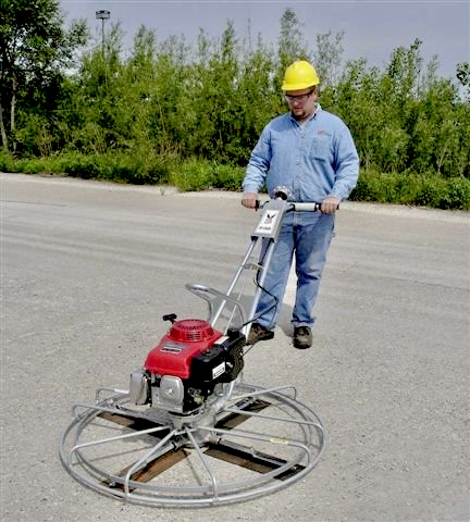 Model F46 Trowel by Arrow-Master, Inc.